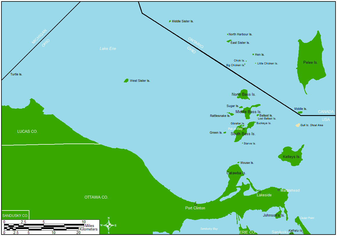 Map showing a majority of the Lake Erie islands that lie between Toledo and Cleveland. Other information For geographic reference only. Not to be used for navigation purposes.